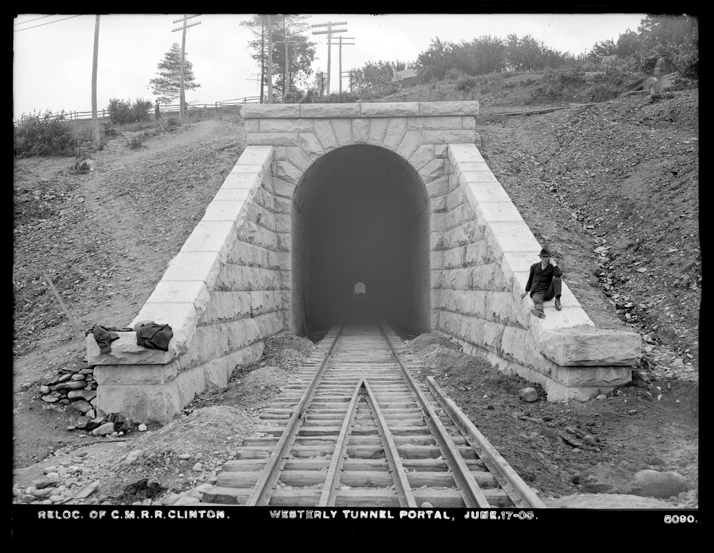 Central Massachusetts Railroad Relocation, westerly tunnel portal, Clinton, MA, Jun. 17, 1903